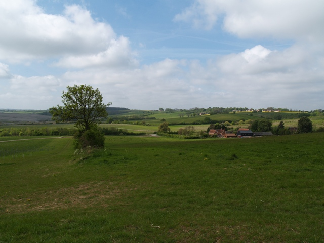 View over Marston Vale Looking south from Cranfield footpath towards Marston Vale and Rectory Farm